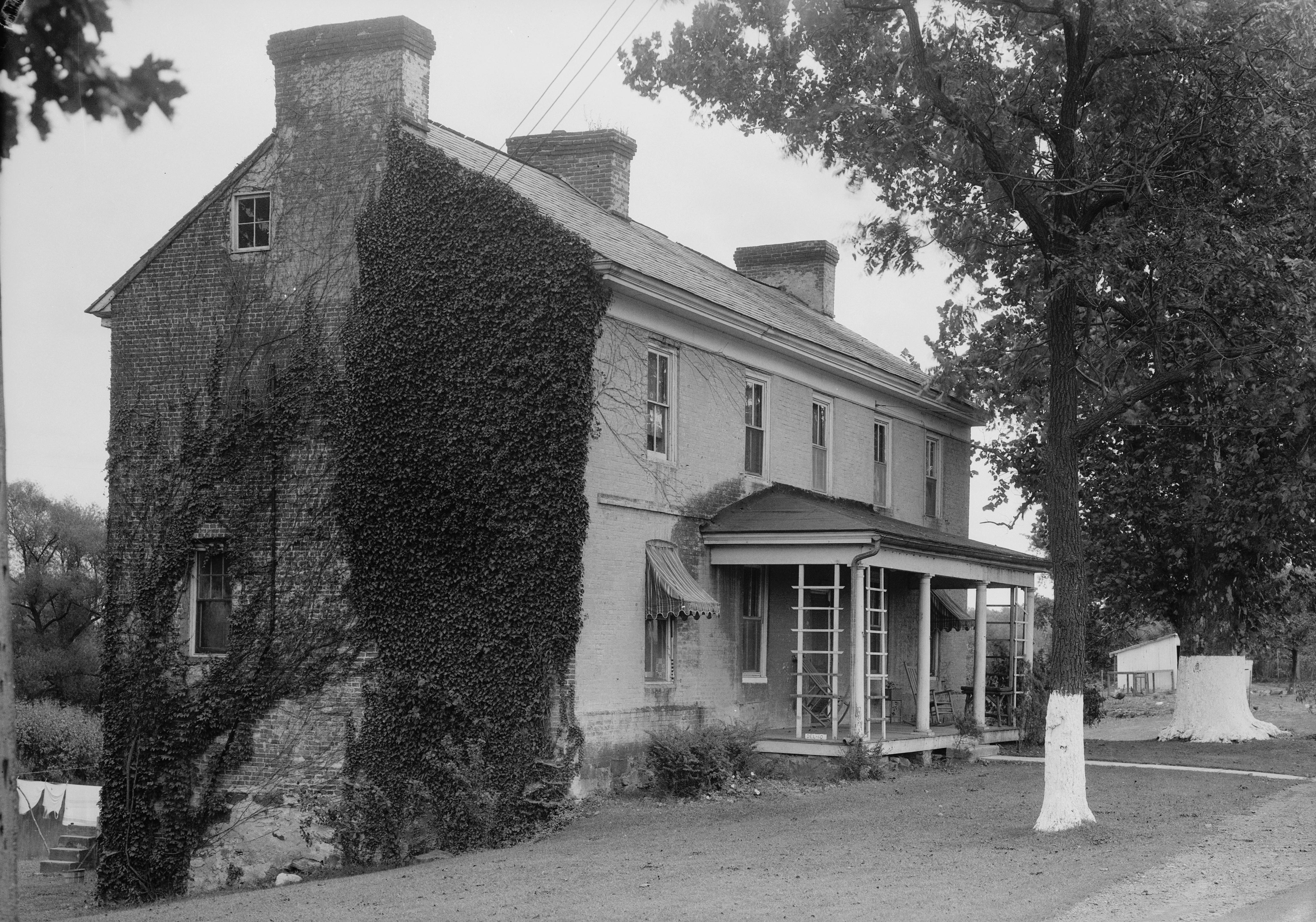 Front of the Hale-Byrnes House, located at the junction of Delaware Routes 4 and 7 in Stanton, Delaware, United States. Built in 1750, the house is listed o the National Register of Historic Places.